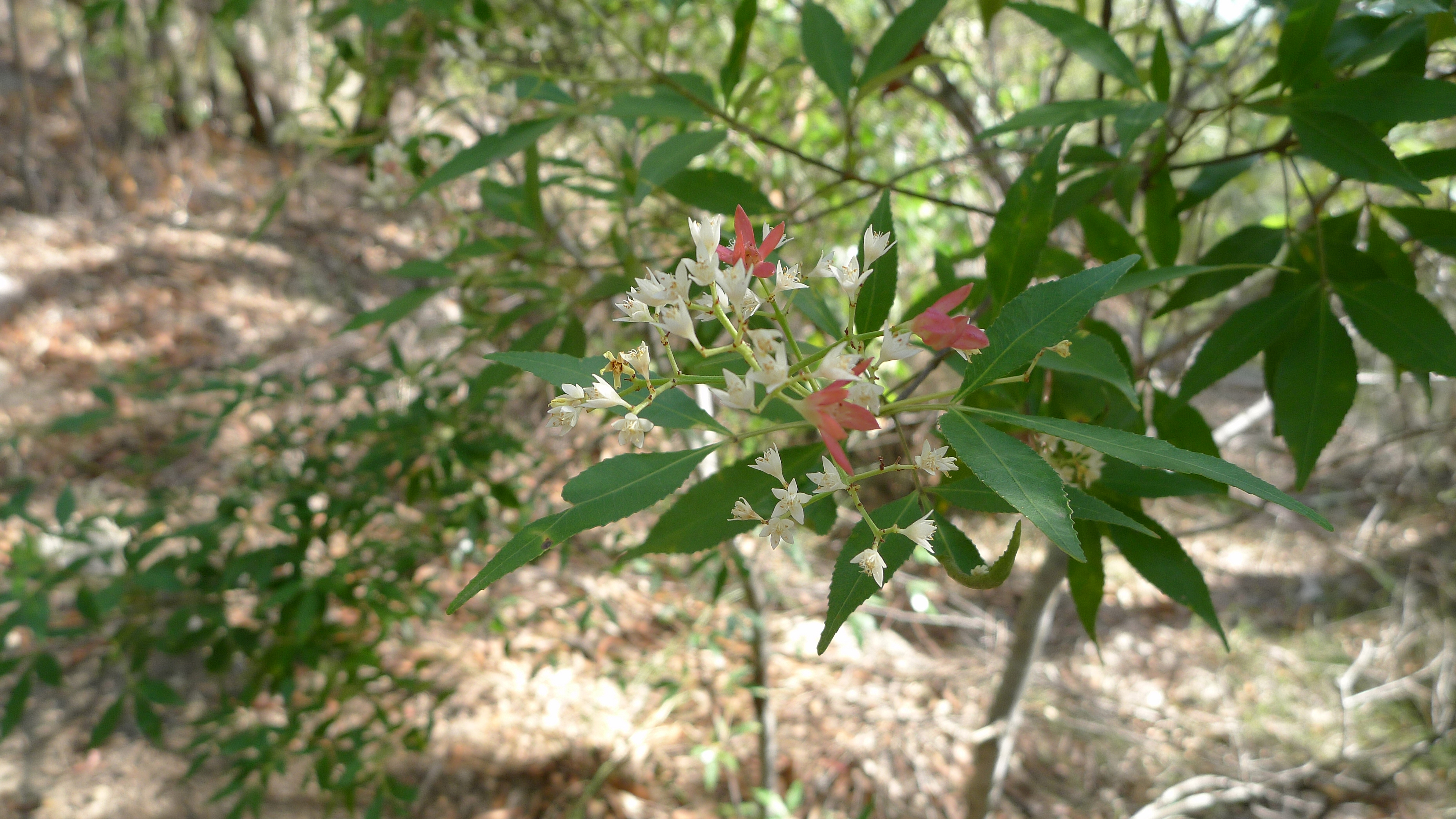 Coachwood, Ceratopetalum apetalum, with serrated leaves and small cream flowers turning pink. Burnum Burnum Reserve, Jannali NSW Australia, December 2013.